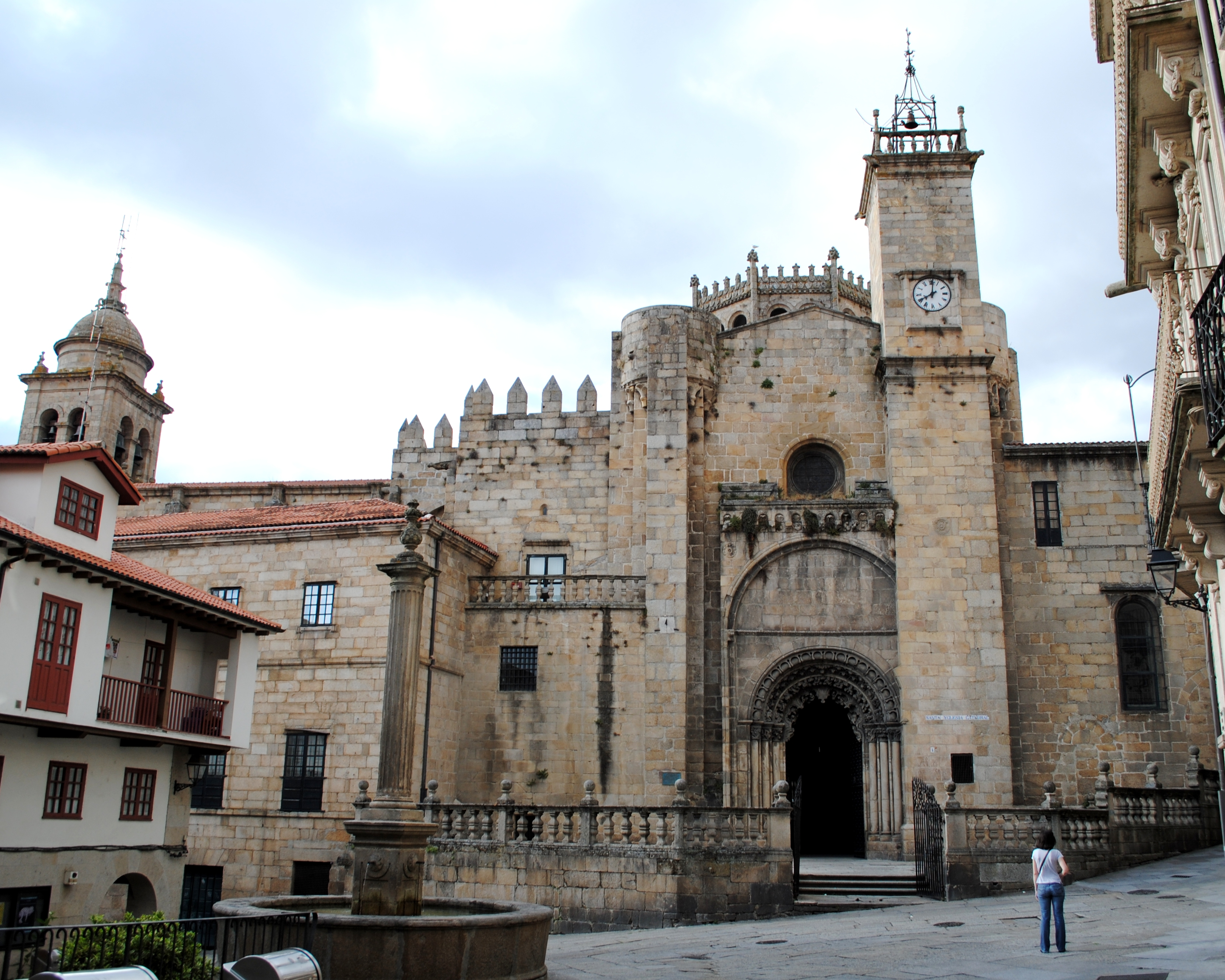 Ourense Cathedral Ourense Cathedral Native nameCatedral de OrenseLocationOurense, Galicia, (Spain)Coordinates42° 20′ 11.2″ N, 7° 51′ 46.3″ W EstablishedMiddle AgeWeb page control : Q1361548 VIAF: 147929516 LCCN: n91120839 BIC: RI-51-0000771 GND: 4814021-1 SUDOC: 101031556 WorldCat institution QS:P195,Q1361548